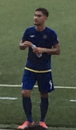 Omid Nazari following the end of the 0-0 football friendly between his club and Perth Glory F.C. of Australia